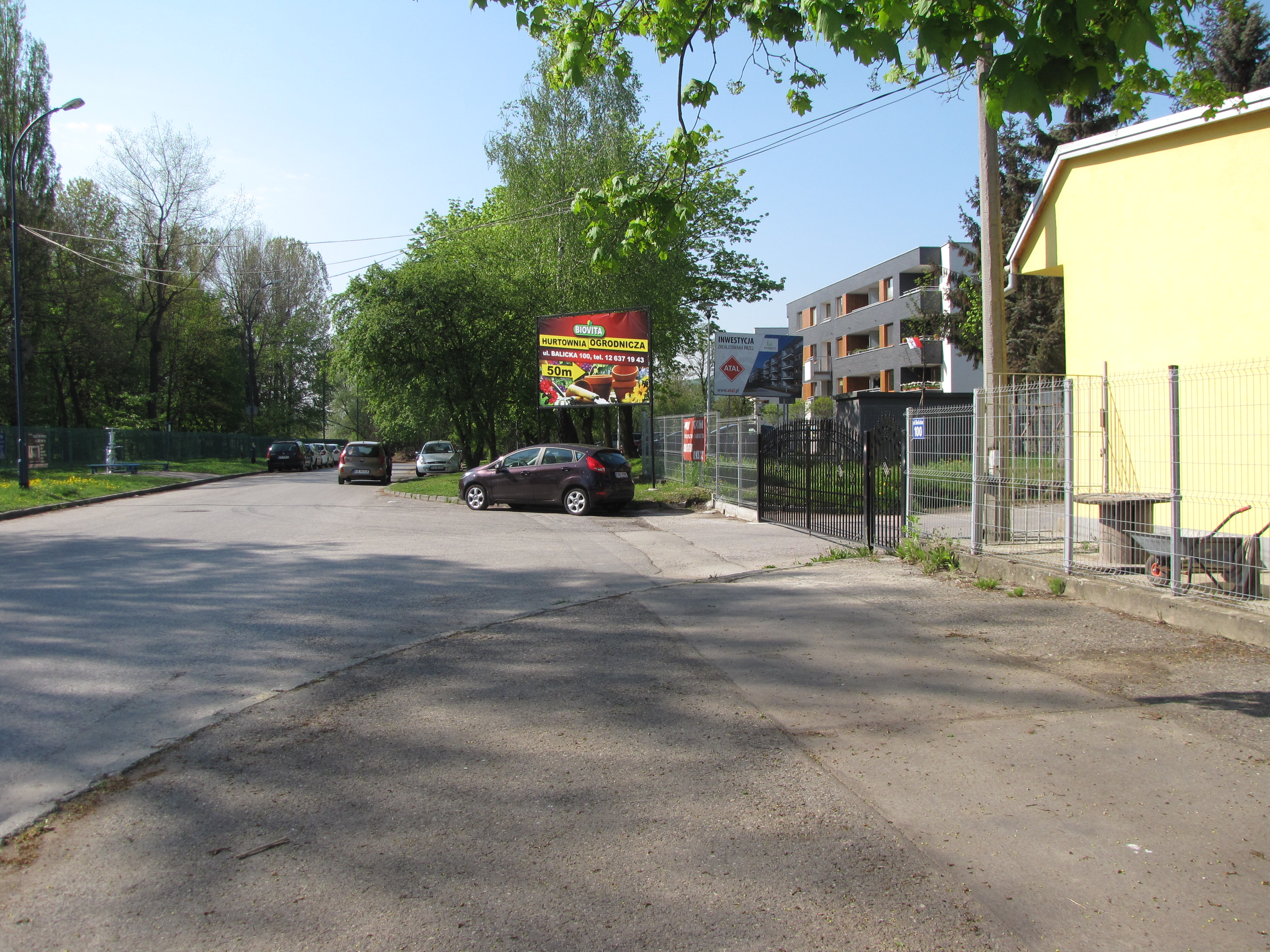 S. B. Lindego street (view from north), subdivision Bronowice Małe, Kraków, Poland